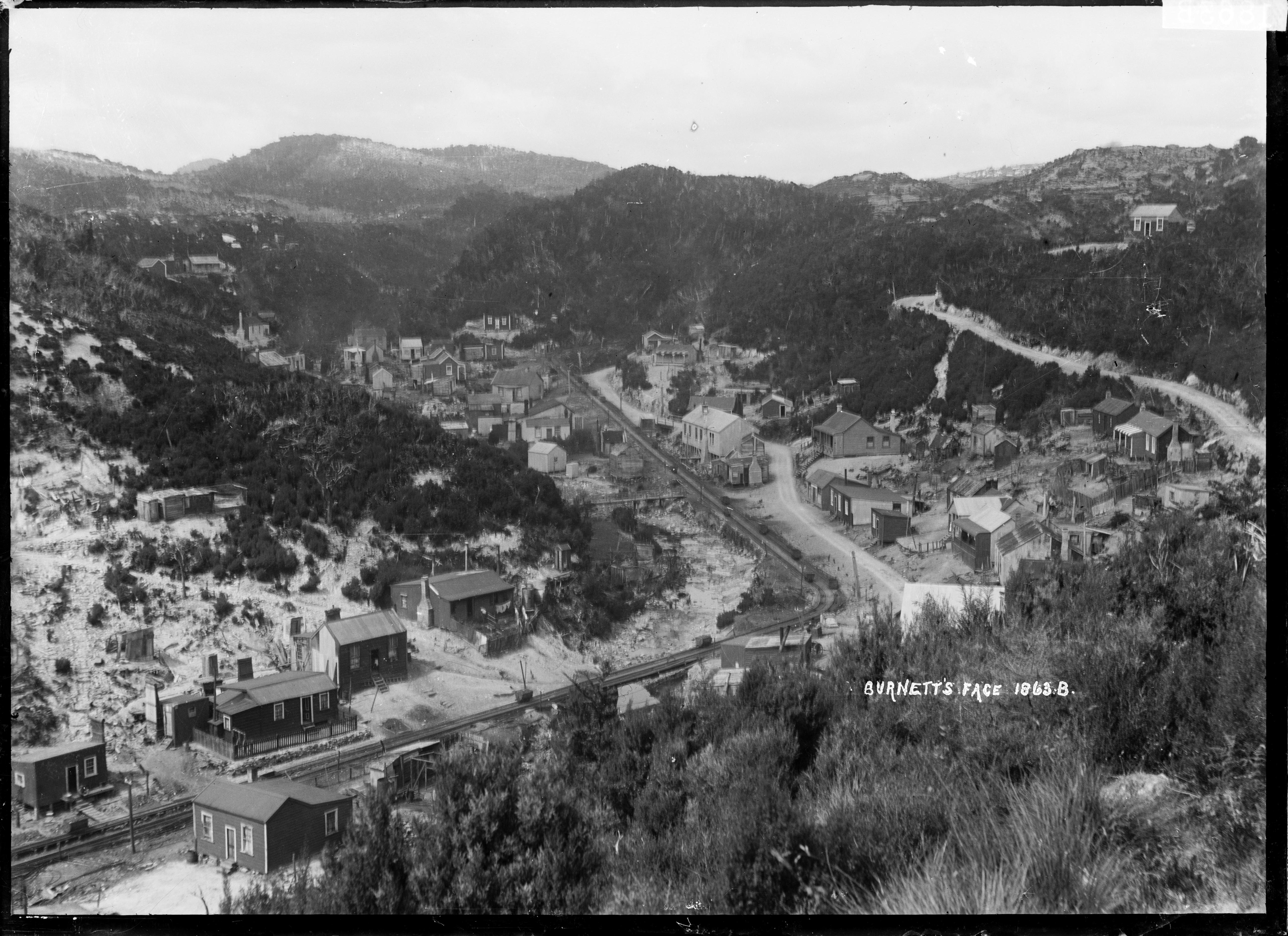 Looking down over the coal mining township of Burnett's Face. The cable roperoad for carrying coal trucks from the mines near Burnett's Face to the brakehead at Deeniston can be seen passing through the town. The road to Denniston winds up the hill on the right. Photographed by William Archer Price, circa 1910 Inscriptions: Inscribed - Photographer's title on negative -bottom right: Burnett's Face. 1863.B. Quantity: 1 b&w original negative(s). Physical Description: Glass negative The coal-mining settlement of Burnett's Face, near Denniston. Price, William Archer, 1866-1948 :Collection of post card negatives. Ref: 1/2-001899-G. Alexander Turnbull Library, Wellington, New Zealand.